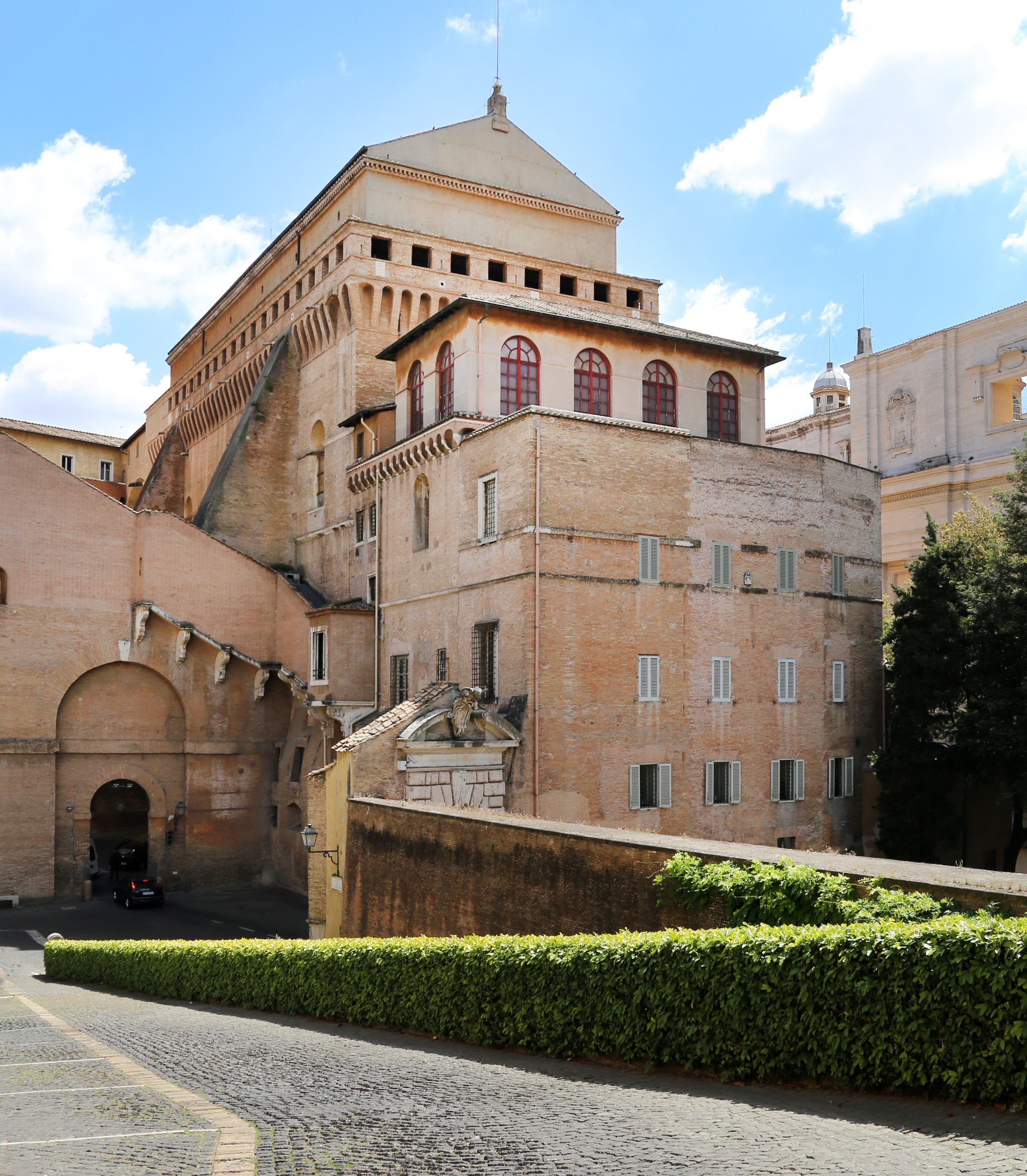 Gardens in the Vatican City